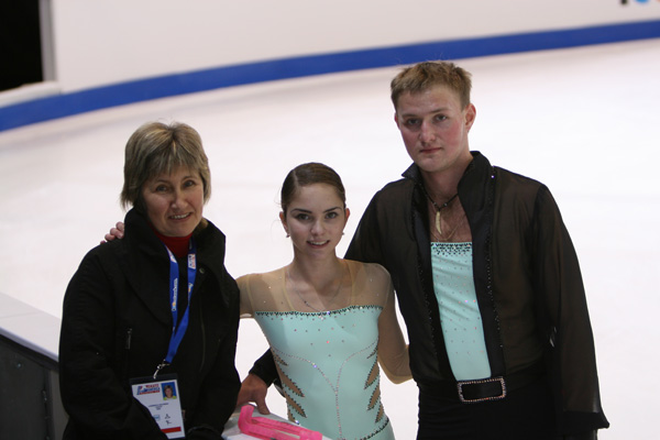 Vera Bazarova & Yuri Larionov (RUS) and his coach Liudmila Kalinina at the Skate America 2007